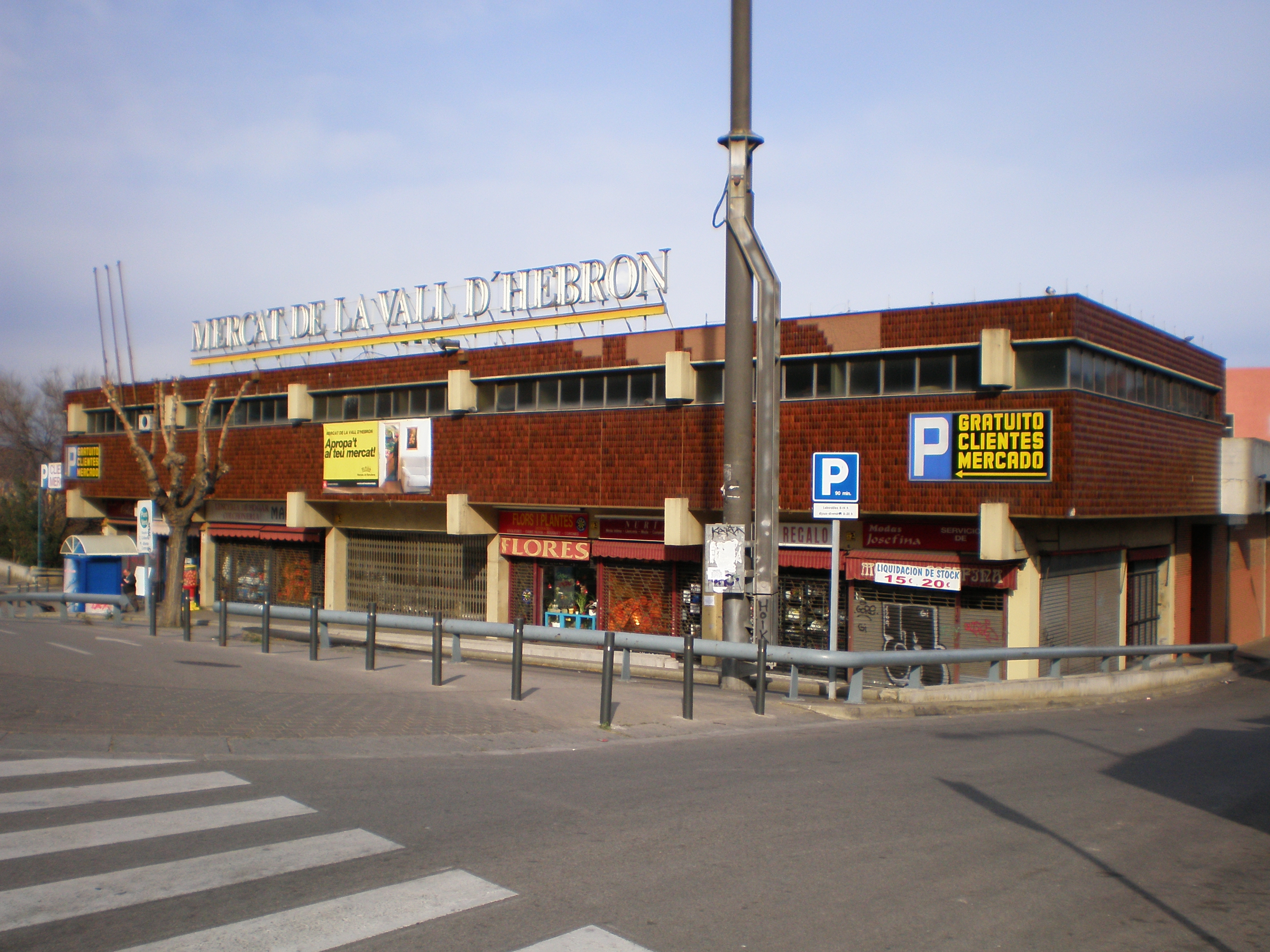 Mercat de La Vall d'Hebron (market).